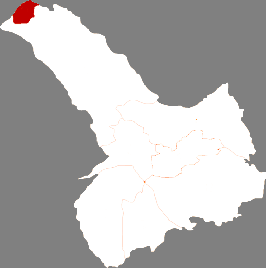 Locator map of Holingol City in Tongliao, Inner Mongolia, China